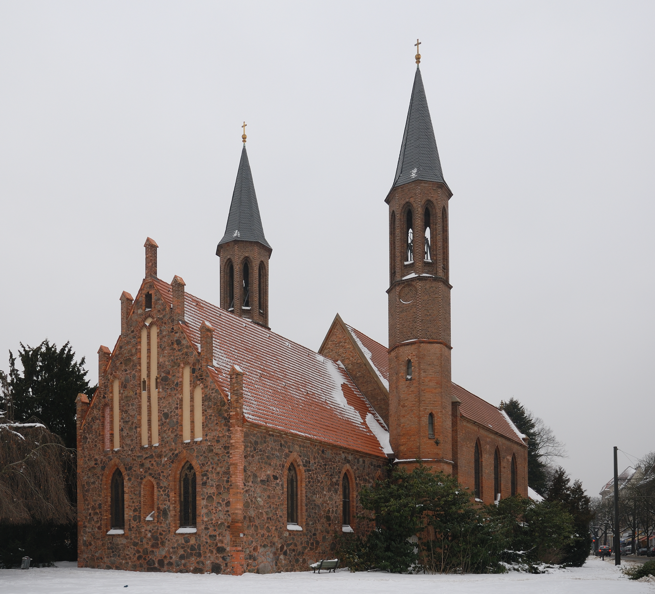 Church of the Four Evangelists in Berlin-Pankow seen from northeast.